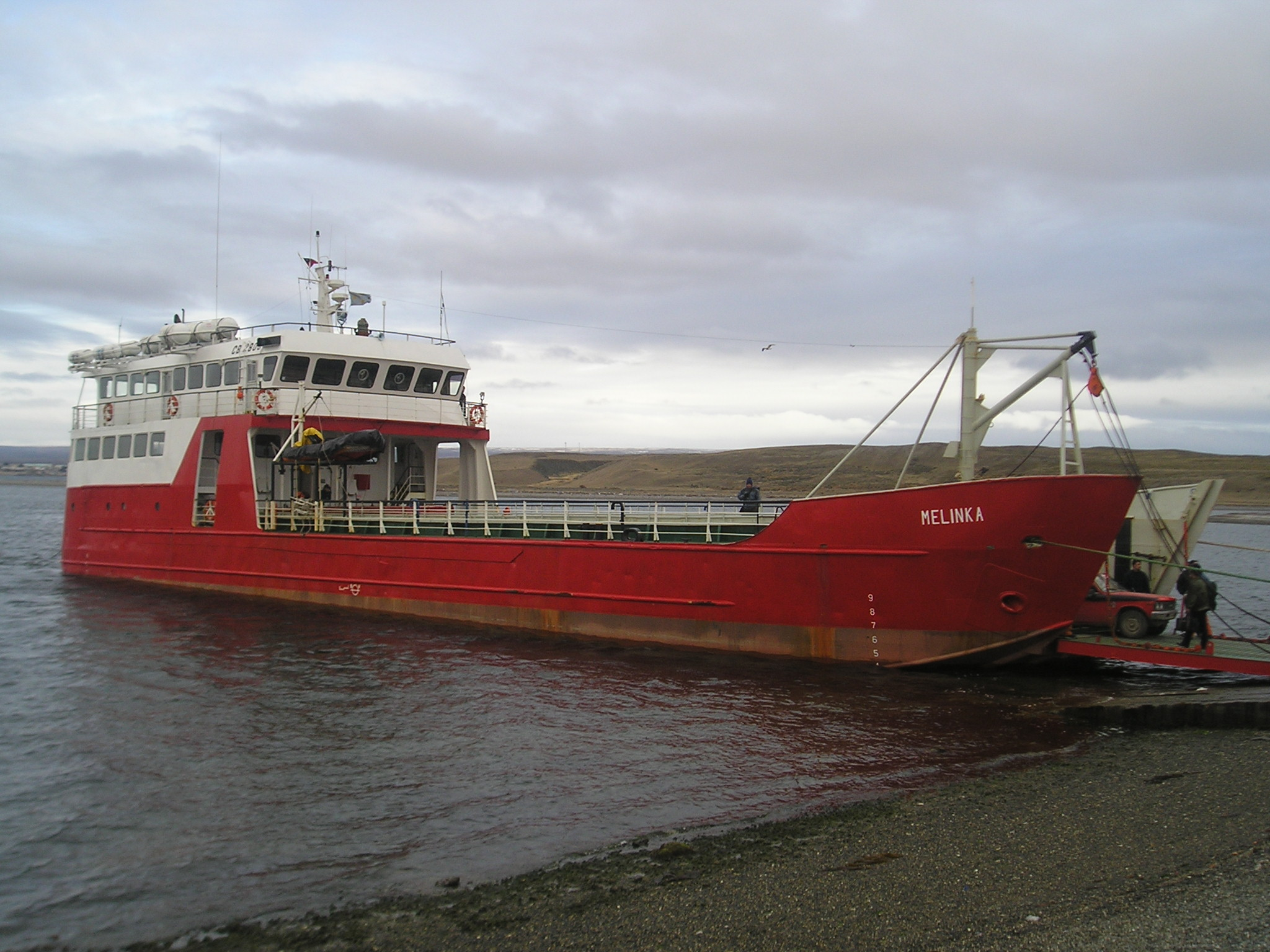 Barcaza Melinka (owned by Transbordadora Austral Broom S.A.) at Porvenir port, providing daily service accross the Strait of Magellan between Punta Arenas and Porvenir. Type: Ro-Ro Cargo Ship IMO number: 6500832 Callsign: CB2808